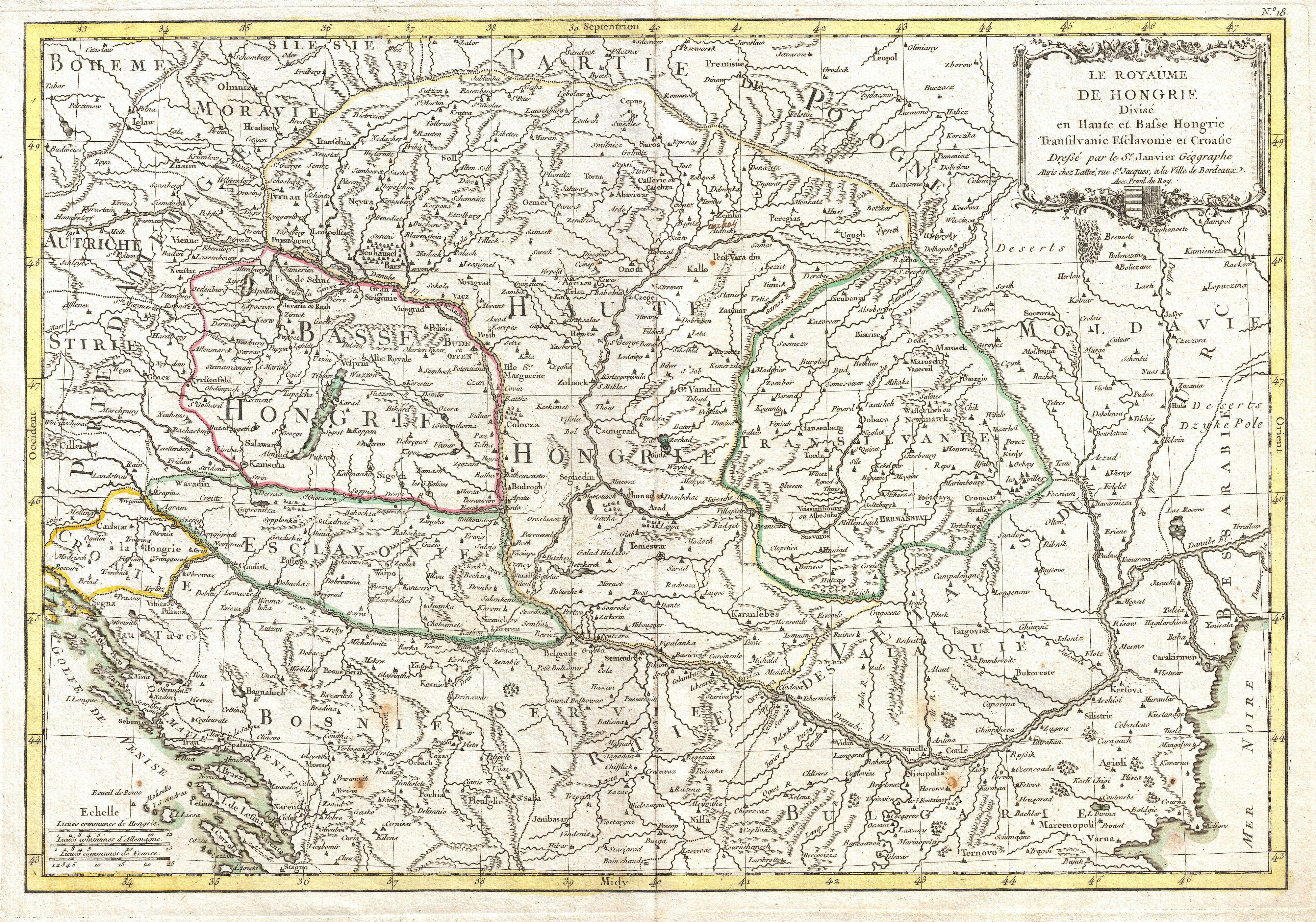 A beautiful example of Le Sieur Janvier's 1771 map of southeastern Europe. Covers much of modern Hungary, Romania, Transylvania, Moldova, Bosnia, Serbia, Croatia, Bulgaria, and parts of Austria, Poland, and Greece. A decorative title cartouche bearing royal crest of Hungary appears in the upper right hand quadrant. A fine map of the region. Drawn by J. Janvier in 1771 for issue as plate no. 18 in Jean Lattre's 1776 issue of the Atlas Moderne .